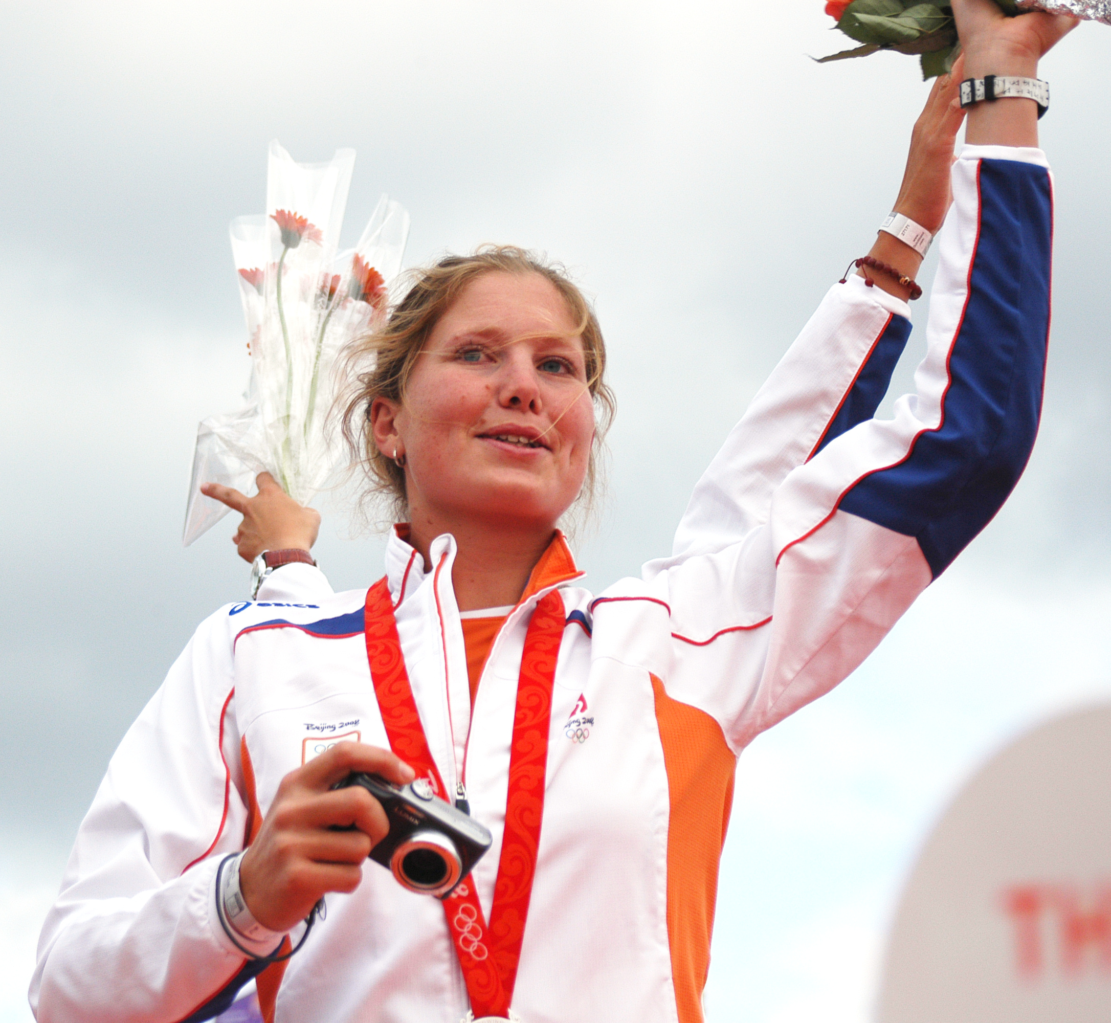 Sarah Siegelaar at the Olympic welcome in the Olympic Stadium in Amsterdam, the Netherlands.